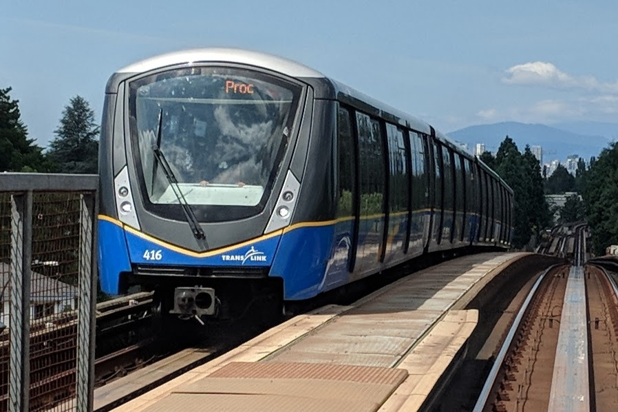 An Expo Line train traveling outbound towards Production Way–University station from Commercial–Broadway station in Vancouver. June 2019.